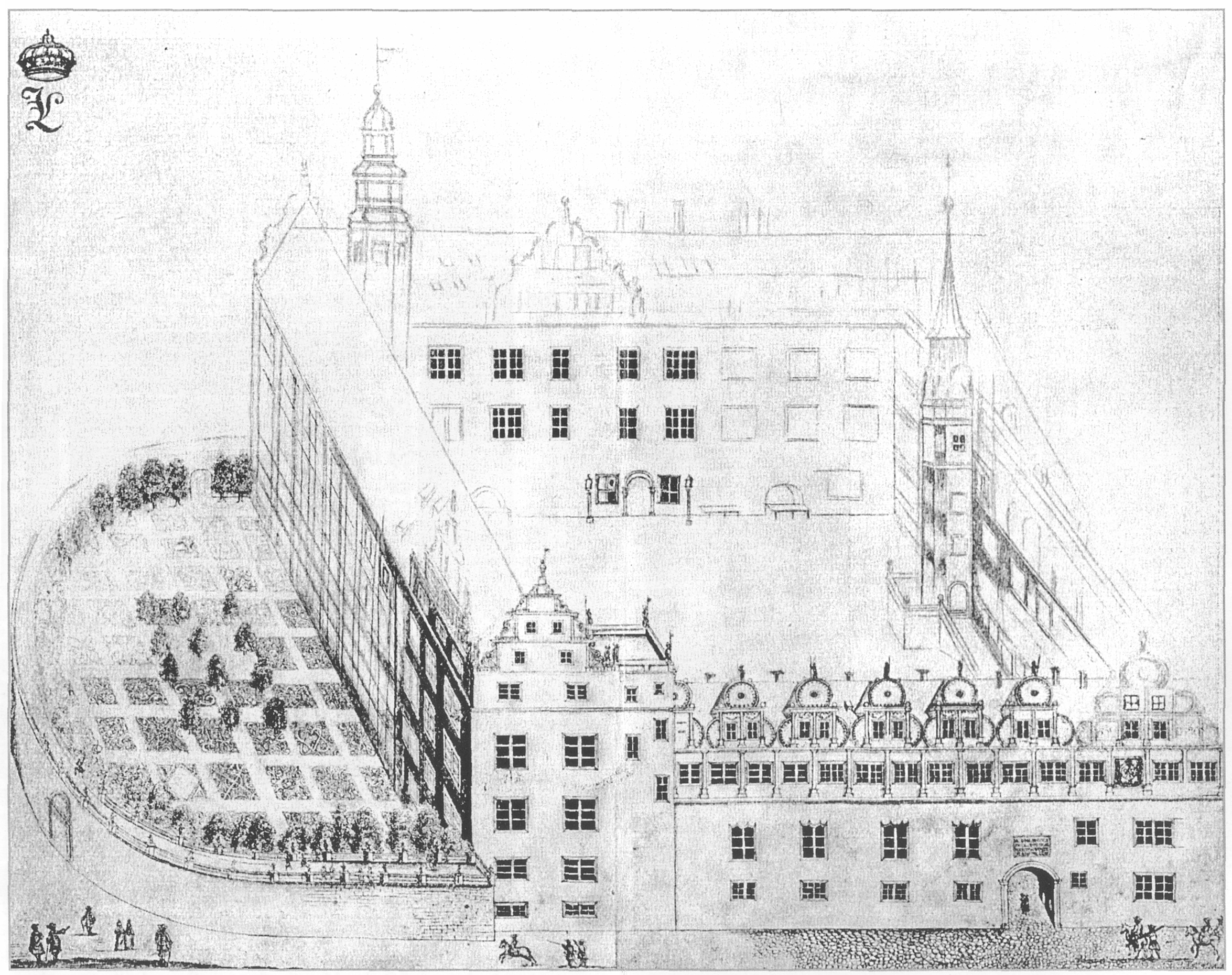 Dessau, (Germany) - Castle